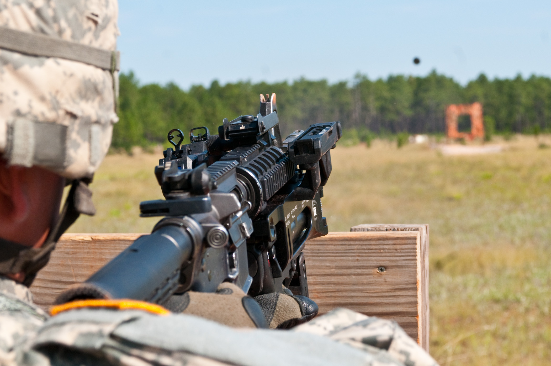 A Paratrooper with 1st Brigade Combat Team, 82nd Airborne Division, fires a training round from the new M320 grenade launcher while learning to use the weapon on a Fort Bragg, N.C., range July 1, 2009. The brigade was the first unit in the Army to receive the advanced grenade launcher that will replace the Vietnam-era M203. (U.S. Army photo by Spc. Michael J. MacLeod) (Released)